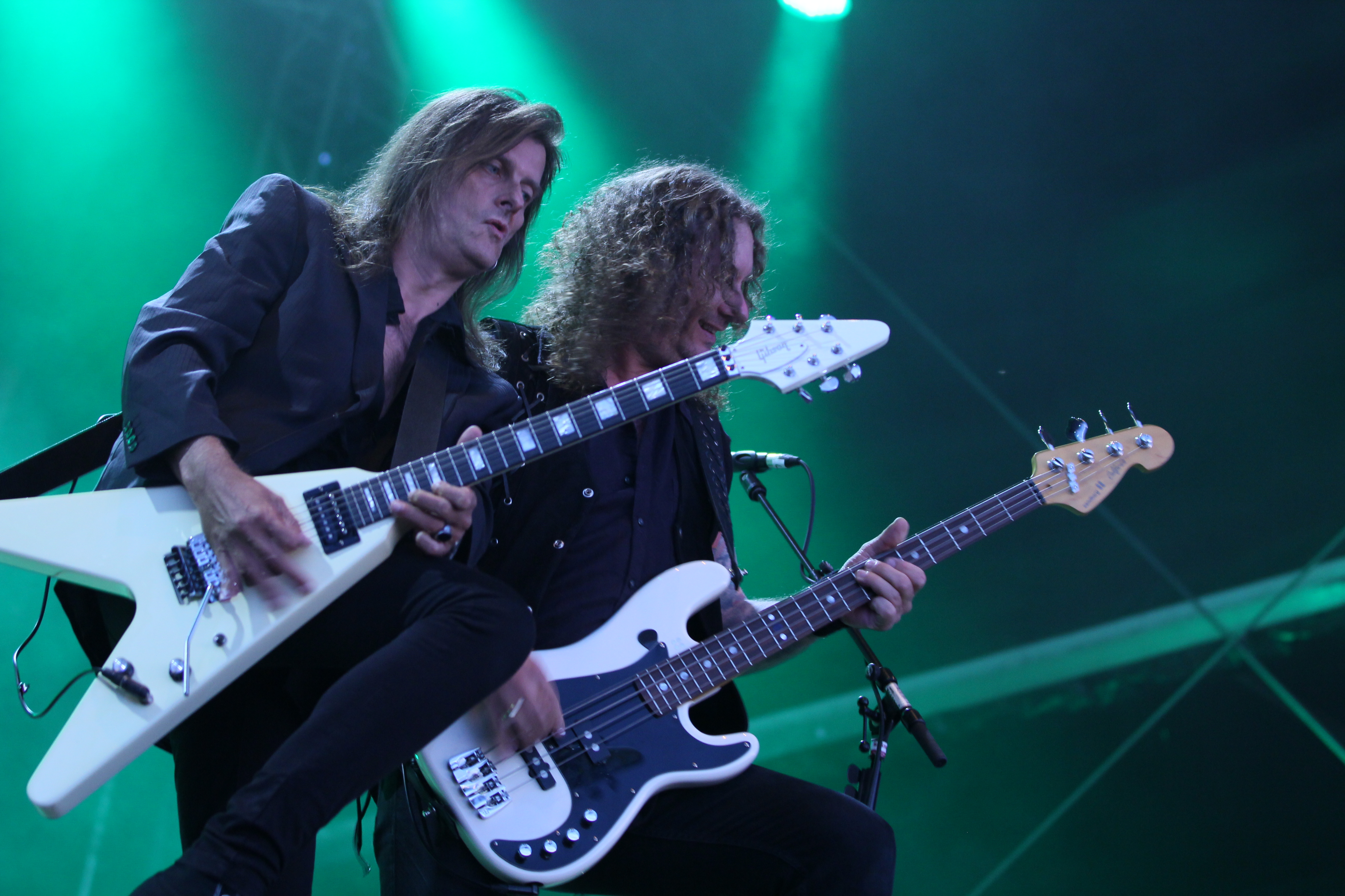 The German power and speed metal band Helloween at the Rockharz Open Air 2014 in Ballenstedt/Germany